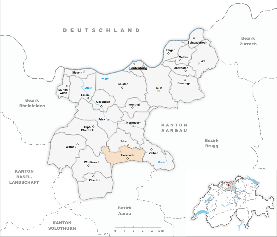 Municipality Herznach